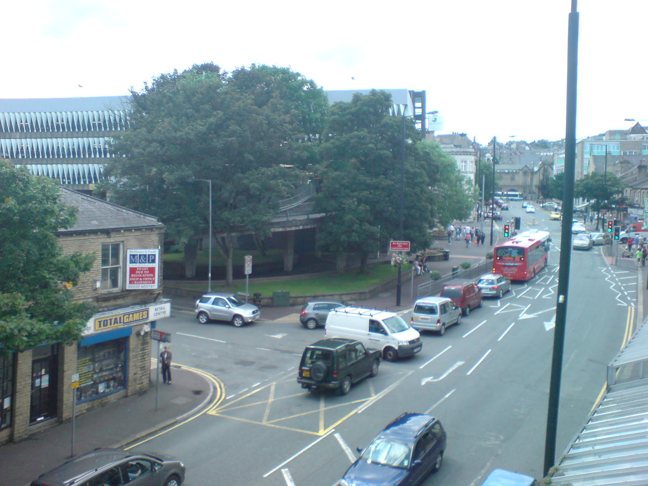 Keighley in West Yorkshire, Great Britain